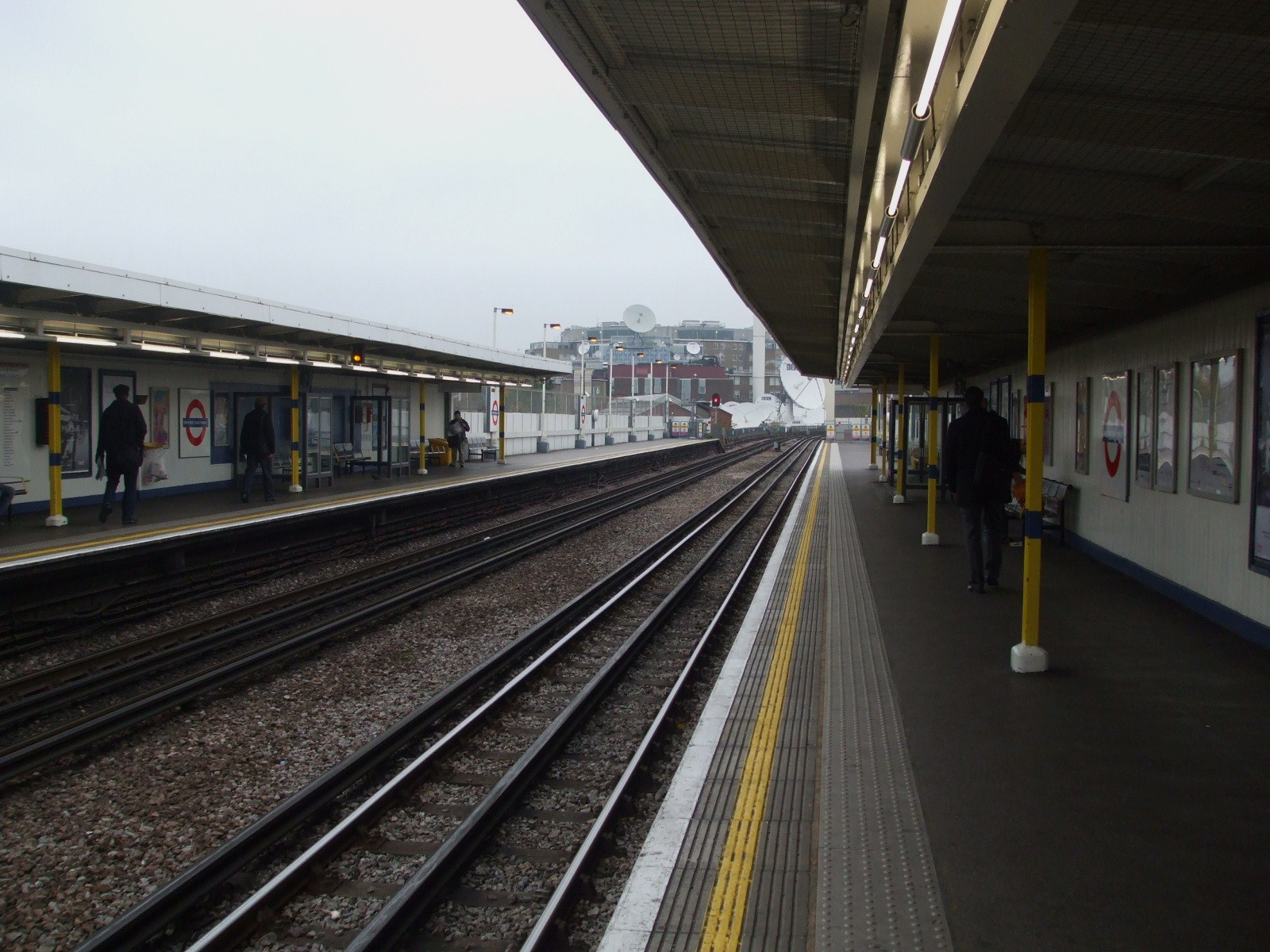 Shepherd's Bush Market tube station looking eastbound (actually north here). Note satellite dishes at BBC Televsion Centre in the distance.